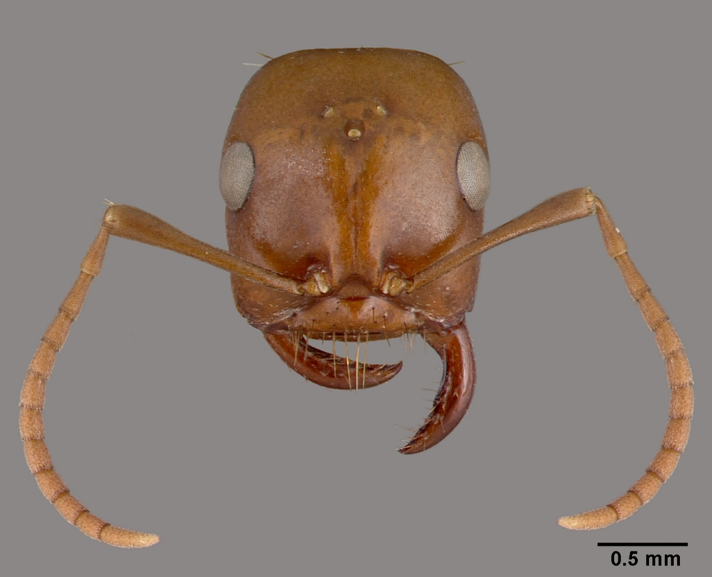 Head view of ant Polyergus rufescens specimen casent0010688.